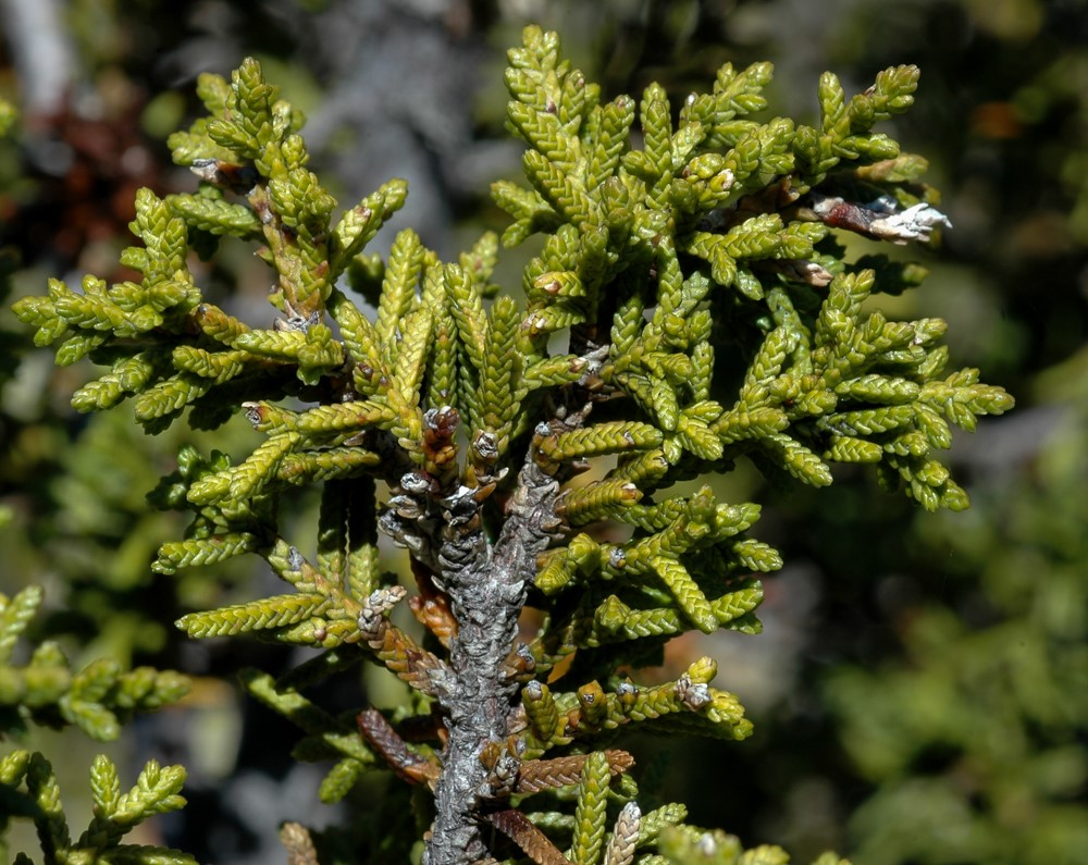 Diselma archeri, Mt. Field. Coniferous shrub